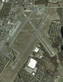 A USGS aerial photo of T. F. Green Airport in Warwick, Rhode Island, United States.